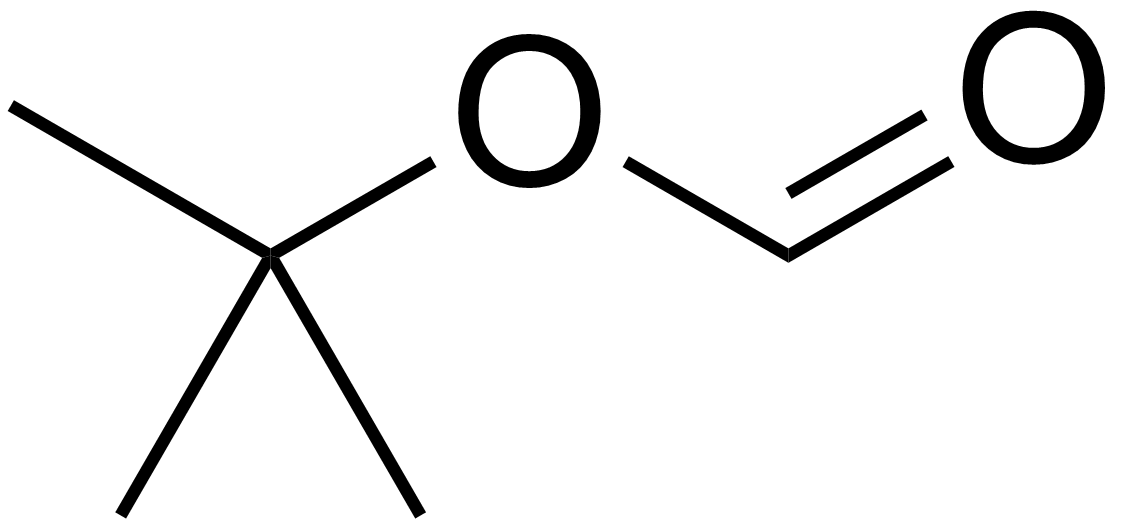 Chemical structure of tert-butyl formate